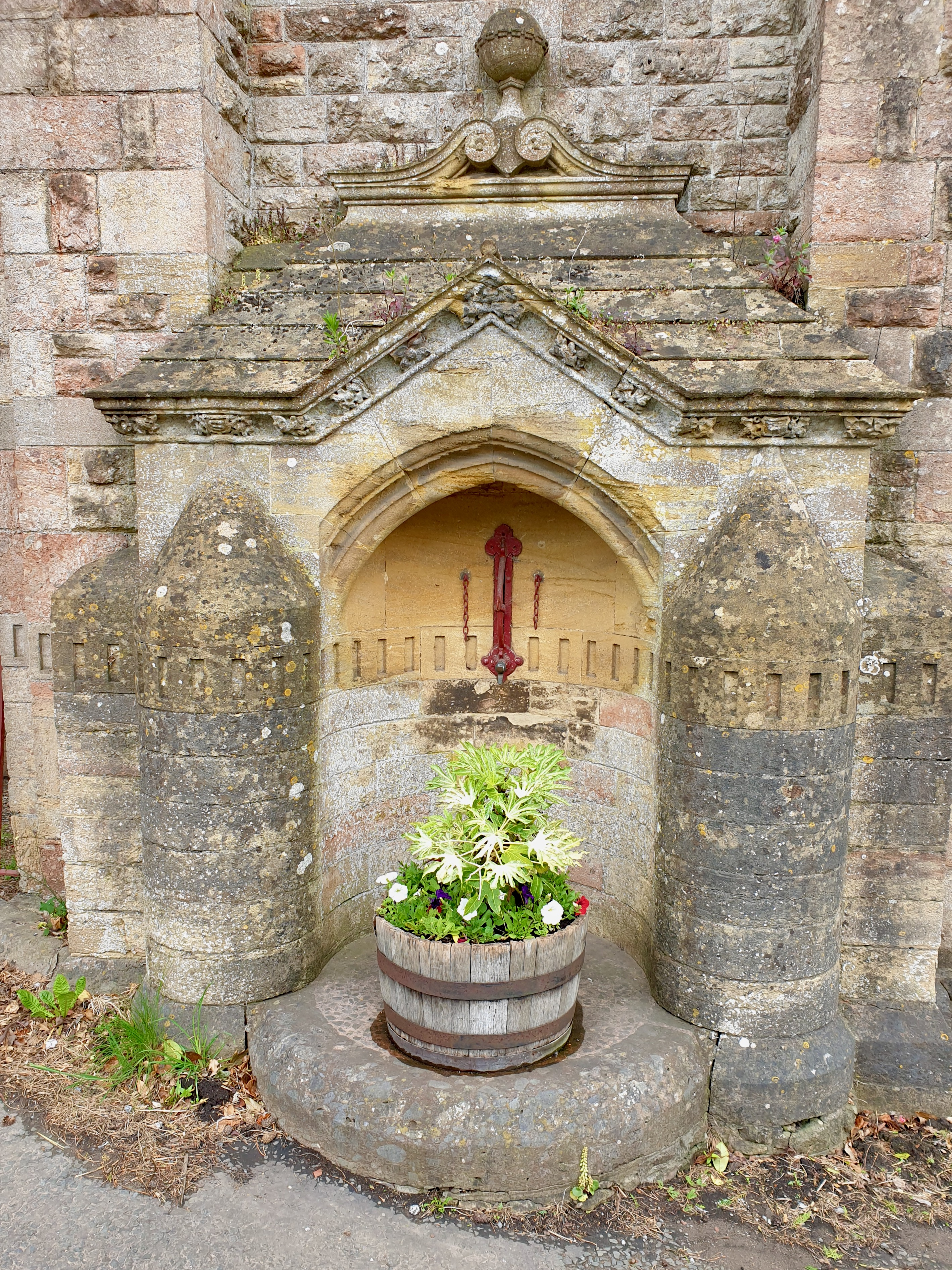 Drinking fountain, with cast iron tap and water pump fittings, built into a niche on the east side the Jubilee Clock Tower in Churchill, Somerset